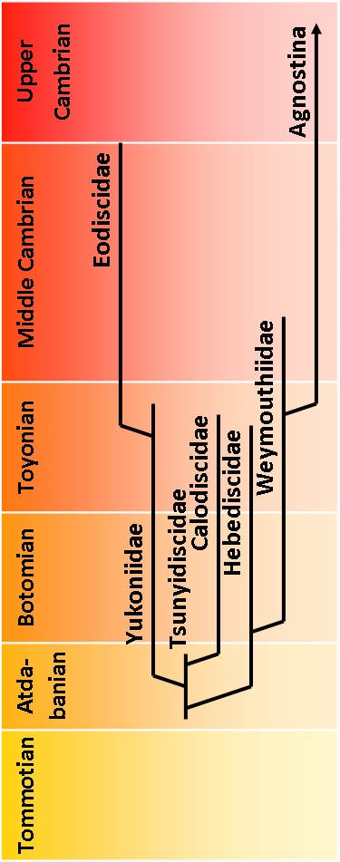 Cladogram of the relations between the families of the Suborder Eodiscina and with the Agnostioidea, according to Jell, 1975